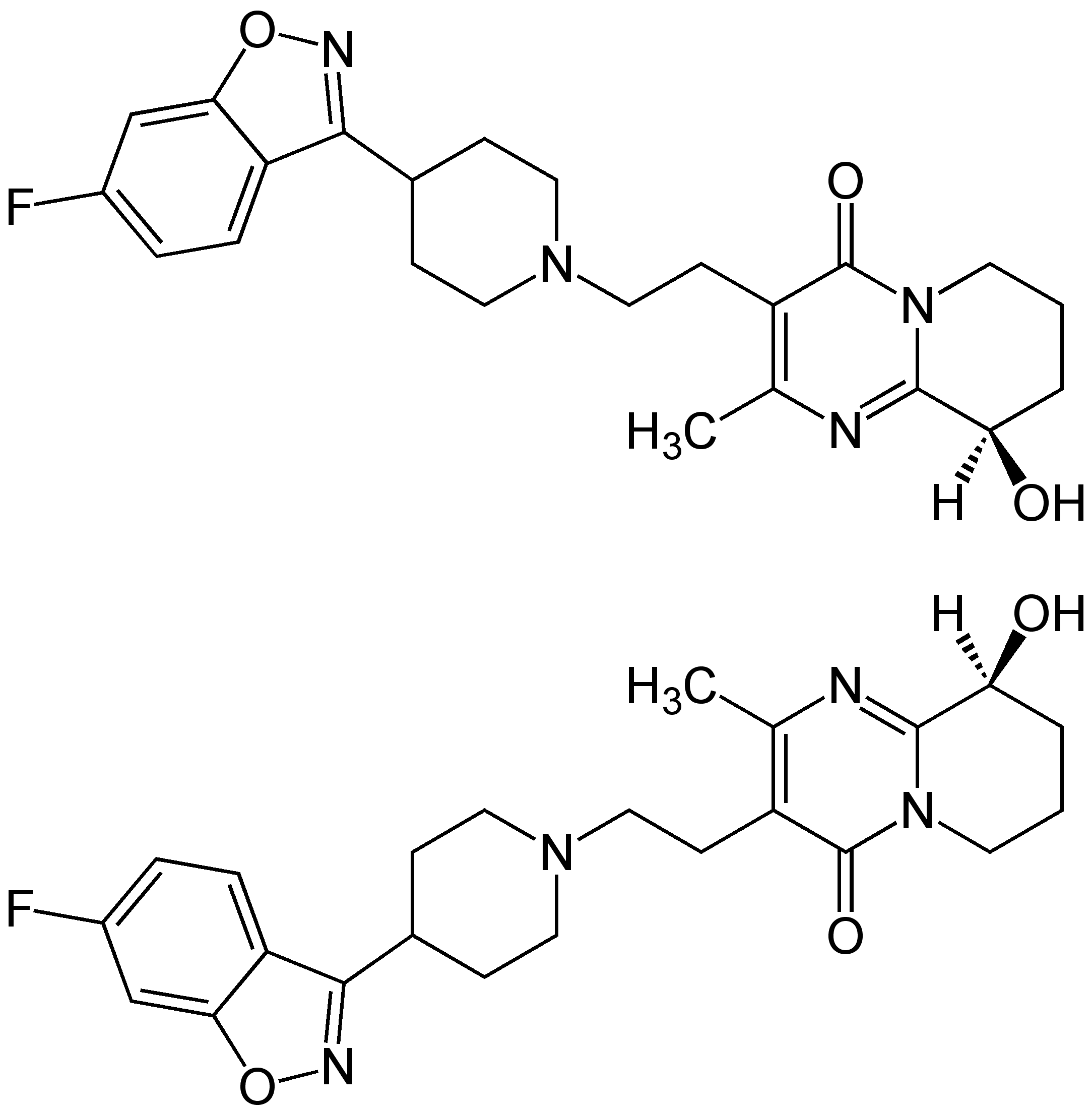 (±)-Paliperidone_Enantiomers_Structural_Formulae